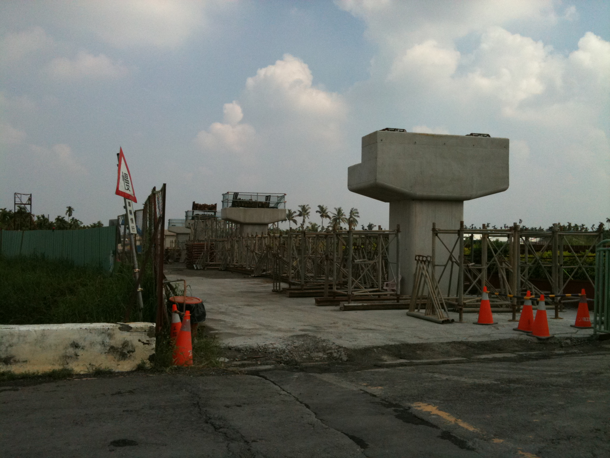 The view of the construction of the railway elevation in TRA Pingtung Line [photo taken, at the level crossing near the Chutien Railway Station (Chinese: 竹田車站)].